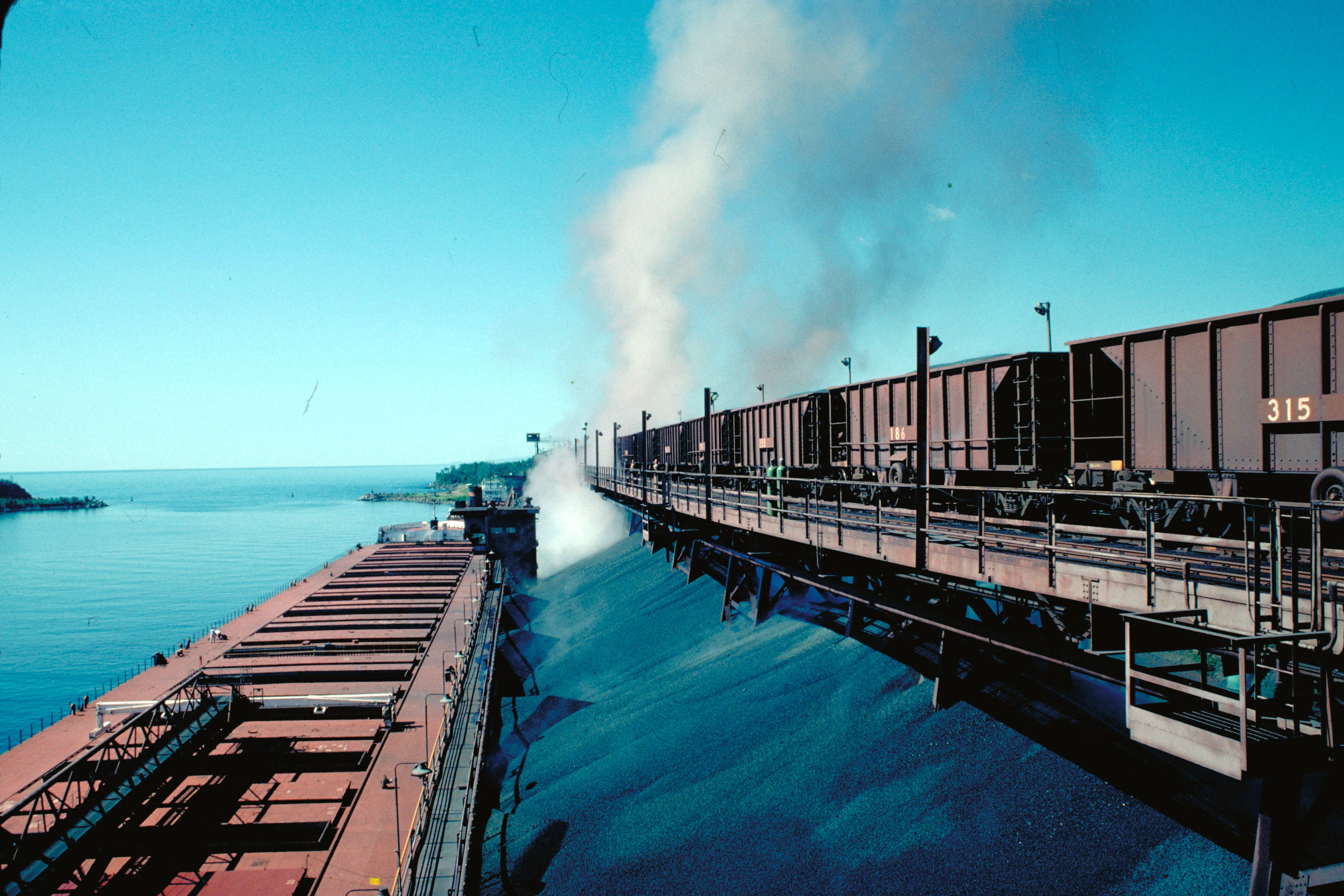 The ore dock at the Taconite Harbor, Minnesota. Visible in the picture are a laker (a self unloader, the boom is visible above the hatchcovers) and a string of ore jennies atop the dock. The piles of material visible are waconite a partially concentrated form of iron ore.